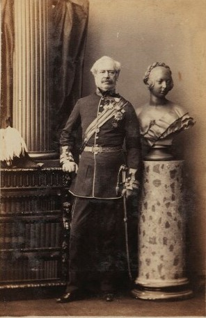 Portrait of William Wylde (1788–1877), British Army officer of the Royal Artillery.